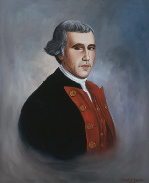 Captain Nicholas Biddle by Orlando S. Lagman